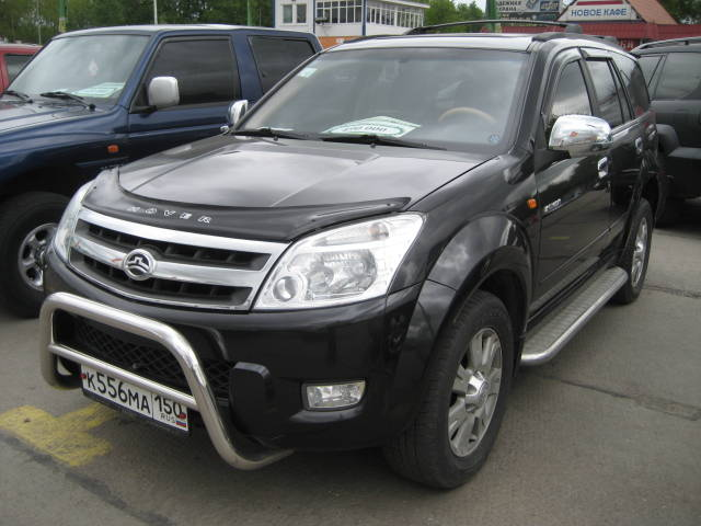 A great wall hover.